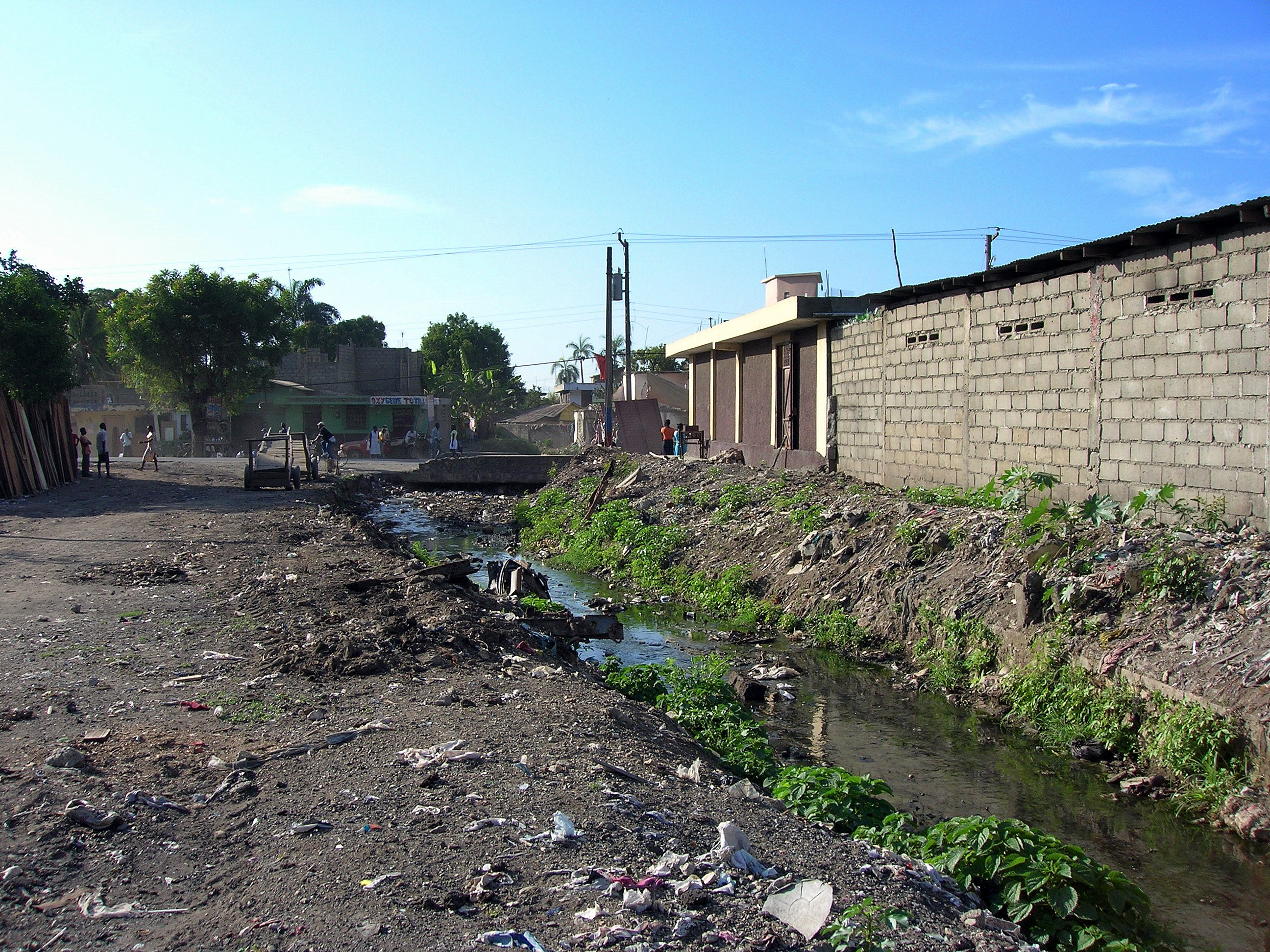 Poor sanitation in the area of Dlo Gervier, Cap-Haitien, Haiti : solid waste on the ground, drainage channel blocked, plastic bags containing excreta, road damaged by runoff water.